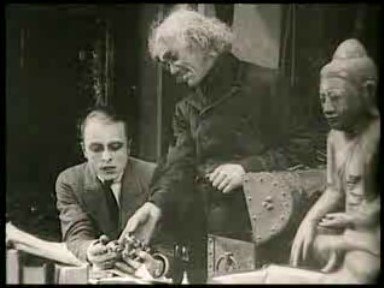 Photo of Murnau´s film "Der Knabe in Blau"